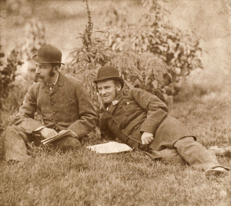 J F (Jules François nee John Feltham) Archibald and John Haynes, journalists of The Bulletin, in Darlinghurst, ca. 1882 / unknown photographer